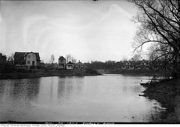 Houses overlooking Smalls Pond, Toronto. This image is available from the City of Toronto Archives. This tag does not indicate the copyright status of the attached work. A normal copyright tag is still required. See Commons:Licensing for more information.